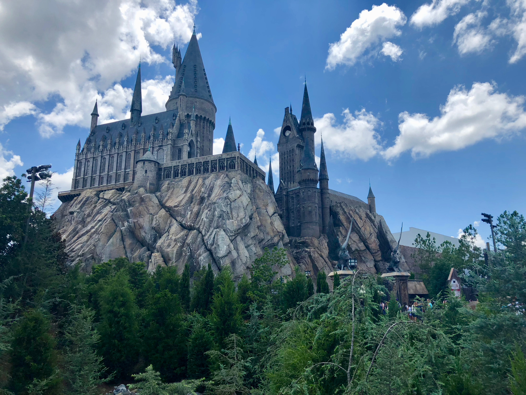 Hogwarts Castle at Universal Studios Orlando in June 2018